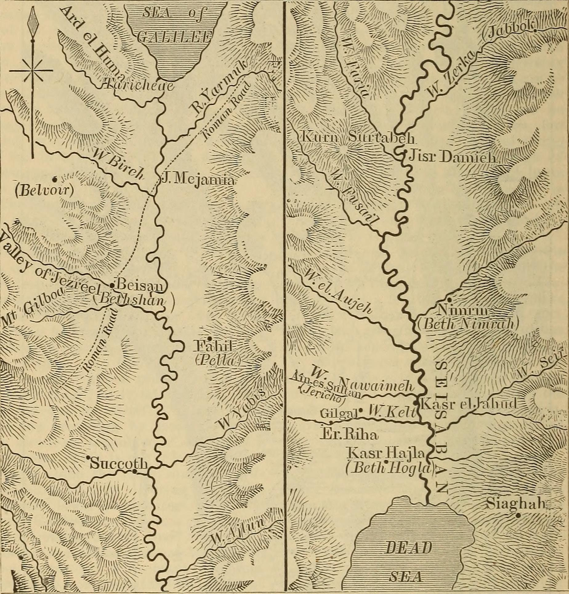 Title: A dictionary of the Bible.. Year: 1887 (1880s) Authors: Schaff, Philip, 1819-1893 Subjects: Publisher: (n. p.) Text Appearing Before Image: Source of the Jordan. (After plans by Major Wilson, E. E.)The figures denote the heights in feet above the sea-level. JOB JOB but is as quickly scorched wherever thewater-supply is not abundant. In themarshes of Huleh are acres of papyrus,the reeds sometimes reaching 16 feet inheight. This reed is now wholly extinctin Egypt, according to Tristram (NaturalHistory, p. 11), and to find it again onemust travel either to India or to Abys- sinia. Farther south along the riverscourse are the jujube (a tropical tree),date-palm, oleander, tamarisk, zuk-kum, or false balm of Gilead, osher,henna, etc. Even in the depth of win-ter the thermometer ranges from 60to 80 degrees. Scripture History.—The first mention Text Appearing After Image: Course of the Jordan from Sea of Galilee to Dead Sea.(After plans by Major Wilson, R. E.) of the Jordan is in Gen. 13 : 10, whereLot beheld the plain of the Jordan asthe garden of the Lord; Jacob crossedand recrossed it, Gen. 32:10,- the Is-raelites passed over it in entering thePromised Land, Josh. 3, 4; Ps. 114 : 3.The phenomenon of the river overflow-ing its banks at the time of harvest is478 still witnessed. The snows from Leba-non melt in the spring-time and swellthe current of the Jordan at the timeof the harvest, which, in the hot climateof the Jordan Valley, comes in April.Prof. Porter of Belfast, at a visit in themiddle of Apiil, found it impossible tocross the river at the usual ford near JOE JOS Jericho, and was compelled to go a )days journey up the banks to Damieh.Among those who crossed over the Jor- idan were Gideon, faint yet pursuing after Zebah and Zalmunna, Jud. 8:4,5 ; the Ammonites, invading Judah, ;Jud. 10 : 9 ; Abner, in flight, 2 Sam. 2 :29; David, in flight, 2